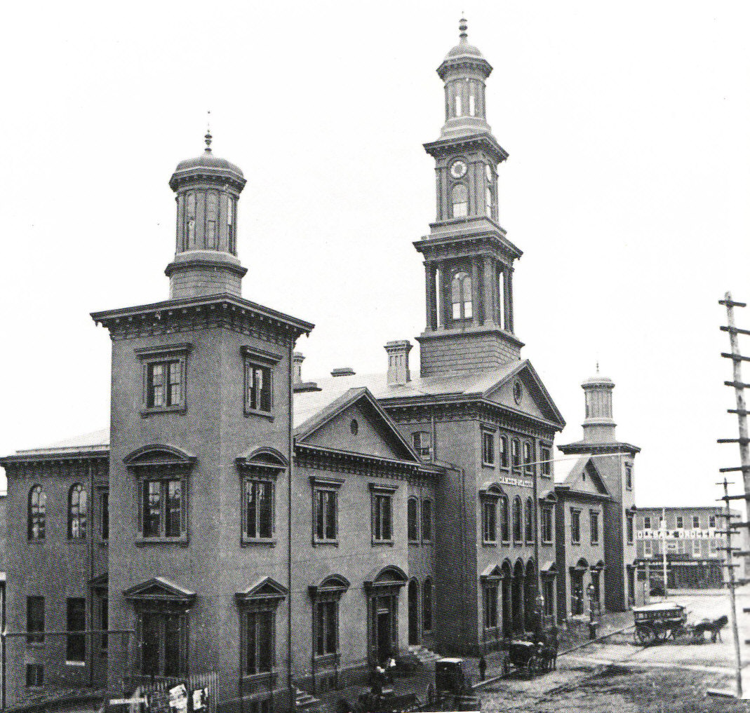 Camden Station in Baltimore, Maryland as it appeared in 1868, when construction of the two wings and towers was completed